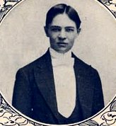 Portrait of Ben Harney, cropped from cover of 1896 sheet music on